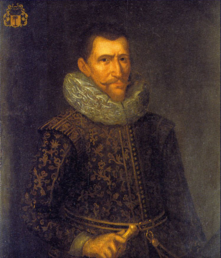 Portrait of Jan Pietersz Coen, Governor-General of the Dutch East Indies from 1619 to 1623 and from 1627 to 1629. Part of the Governors-general series.